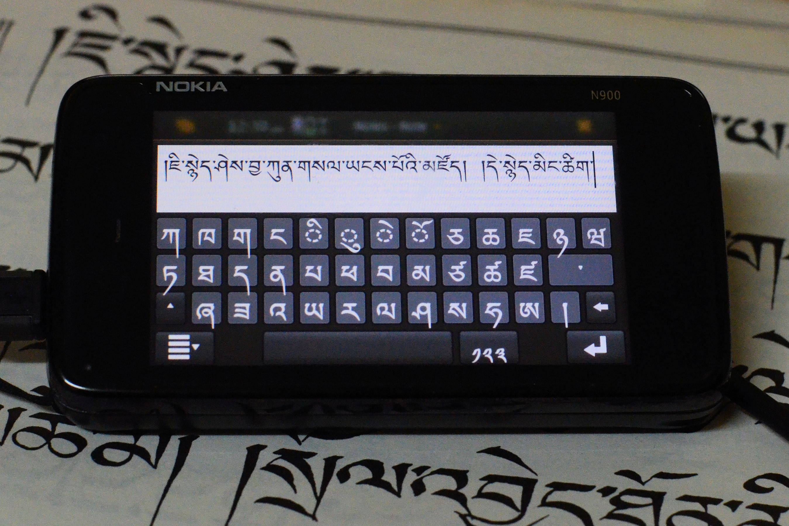 Dzongkha virtual keyboard on Nokia N900